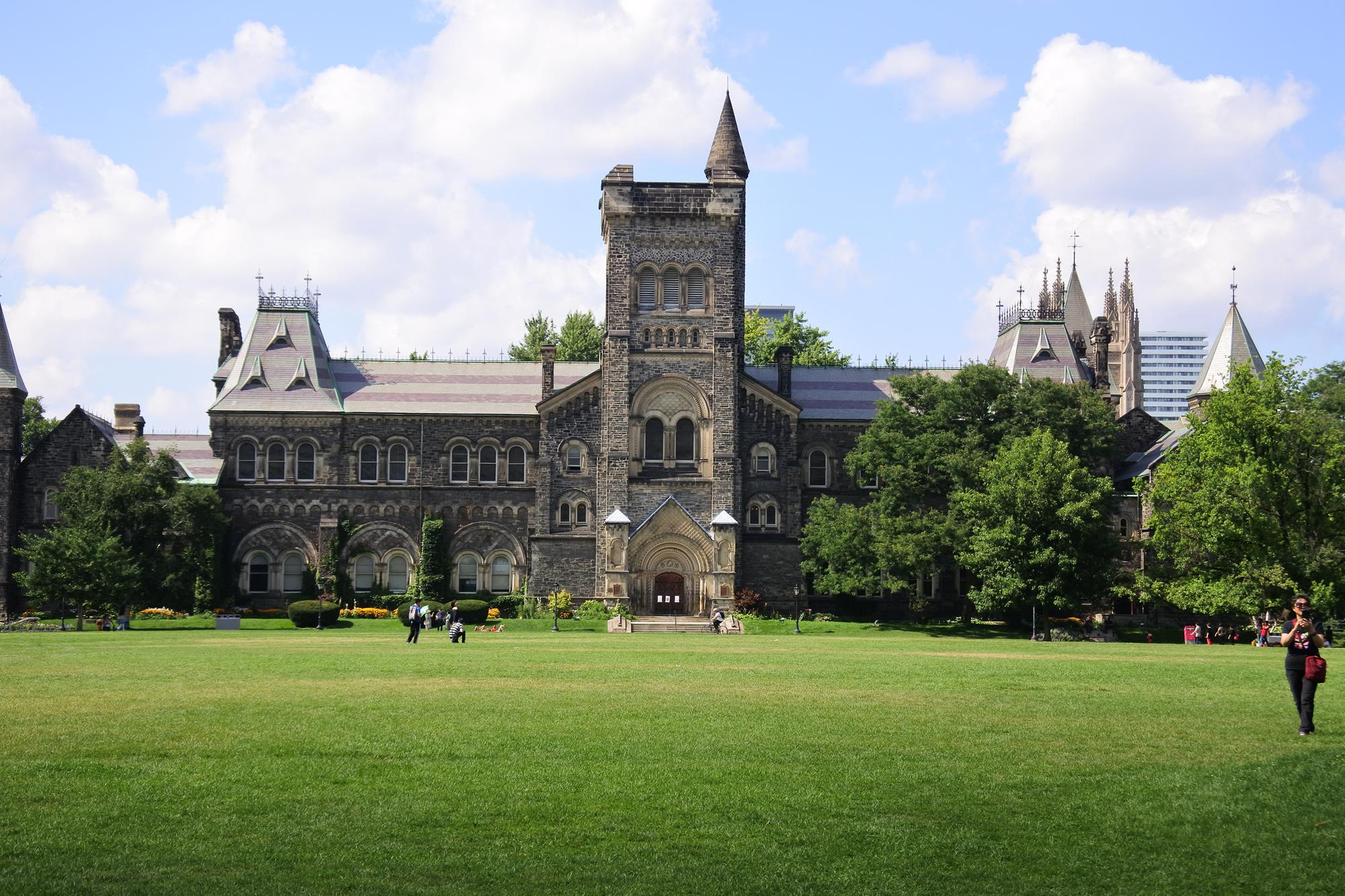 The University College and lawn at the University of Toronto, Canada